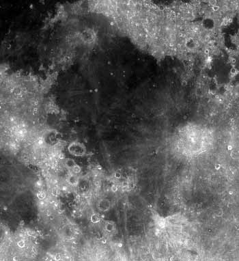 Photo of Mare Fecunditatis. You can make out Mare Tranquillitatis in the upper left corner of the picture below, while the patch of grey in the lower-left is Mare Nectaris. On the eastern edge of Fecunditatis is the crater Langrenus, seen as the lighter grey area on the right-center of the photo.